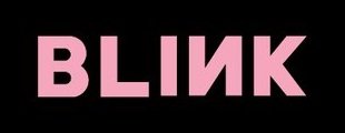 Black Pink fan official logo.